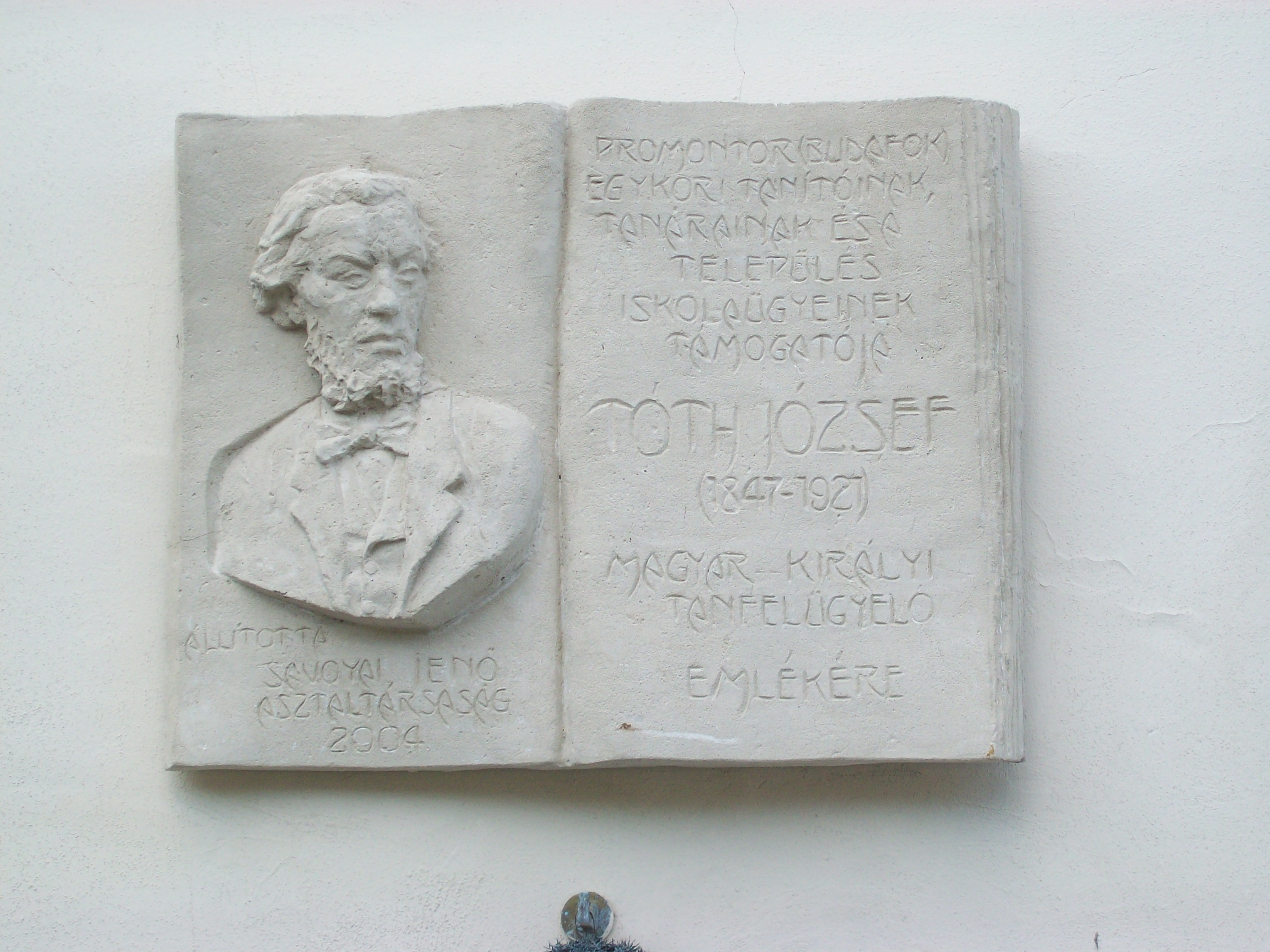 Commemorative plaque of József Tóth, Budapest District XXII, Savoyai Jenő Square